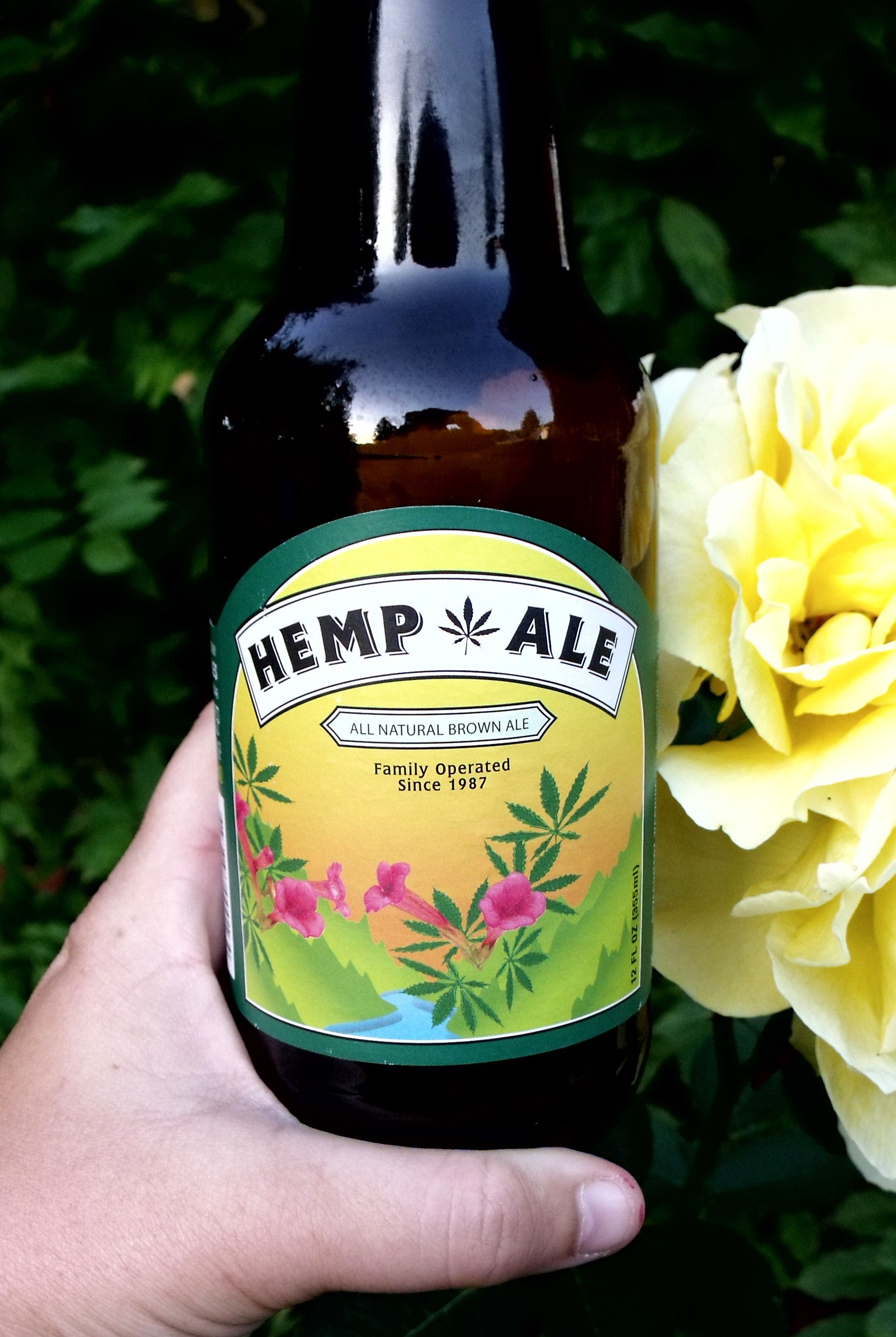 Hemp beer